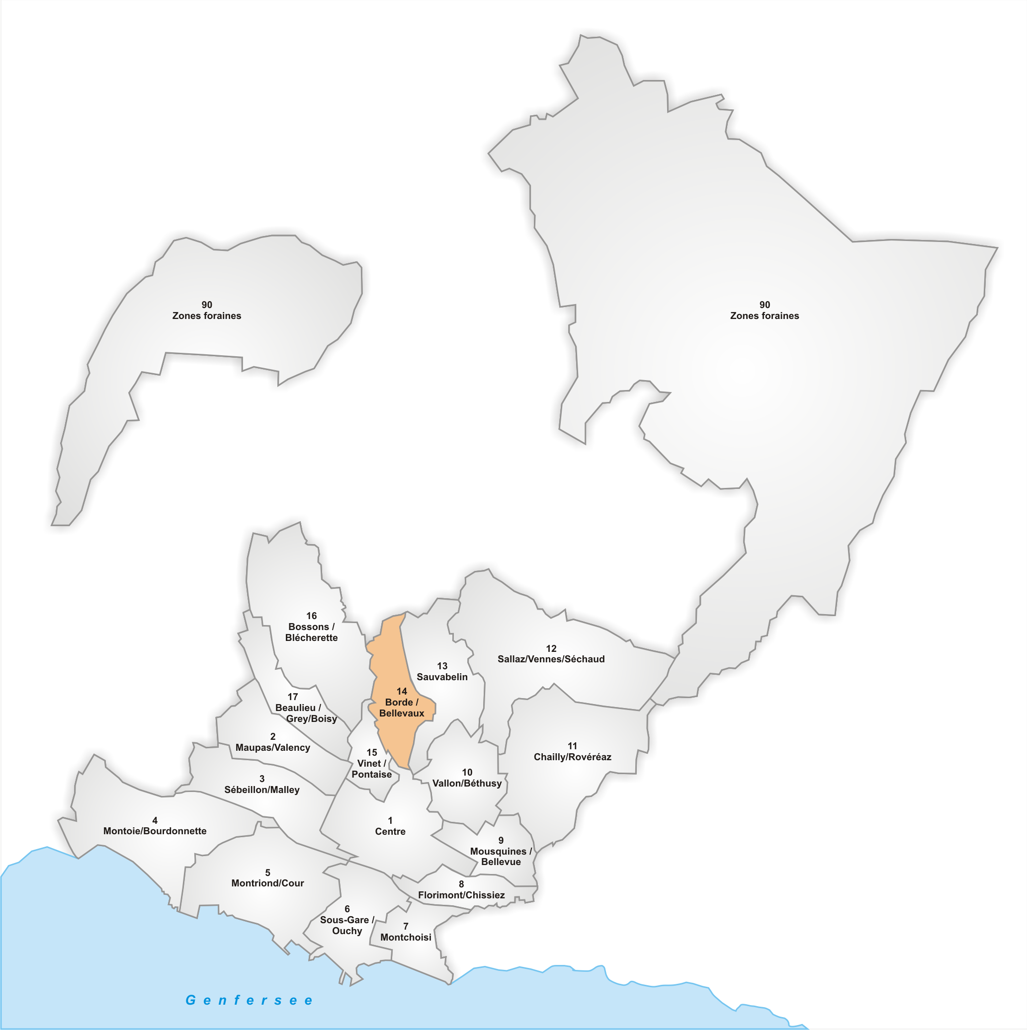 Lausanne Quarter 14